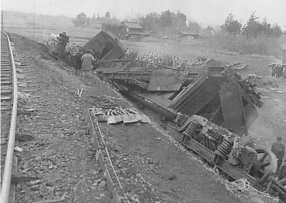 Hachiko Line rail accident in 1947